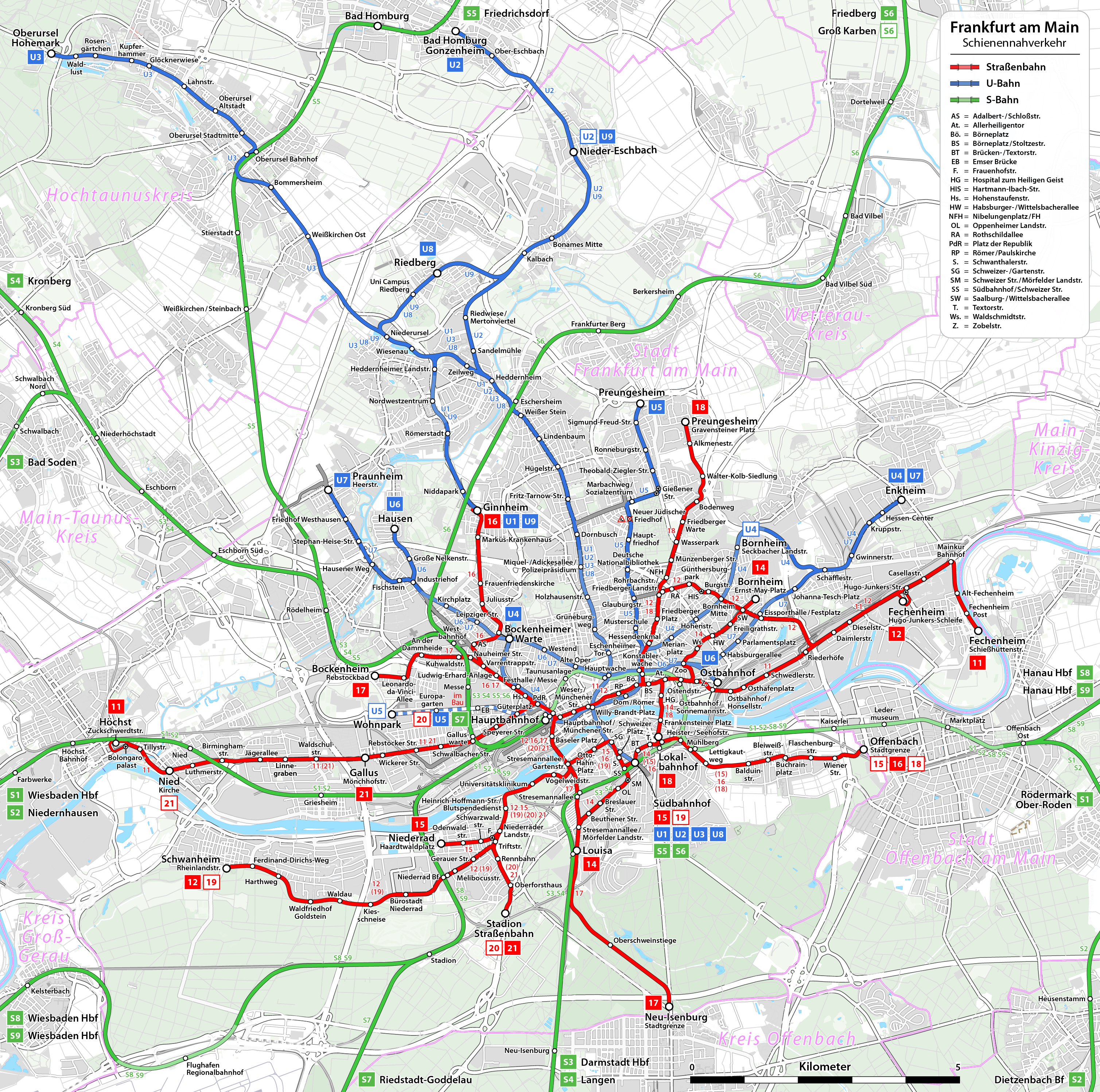 Map of the Frankfurt on the Main/Frankfurt upon Main tramway and metro system